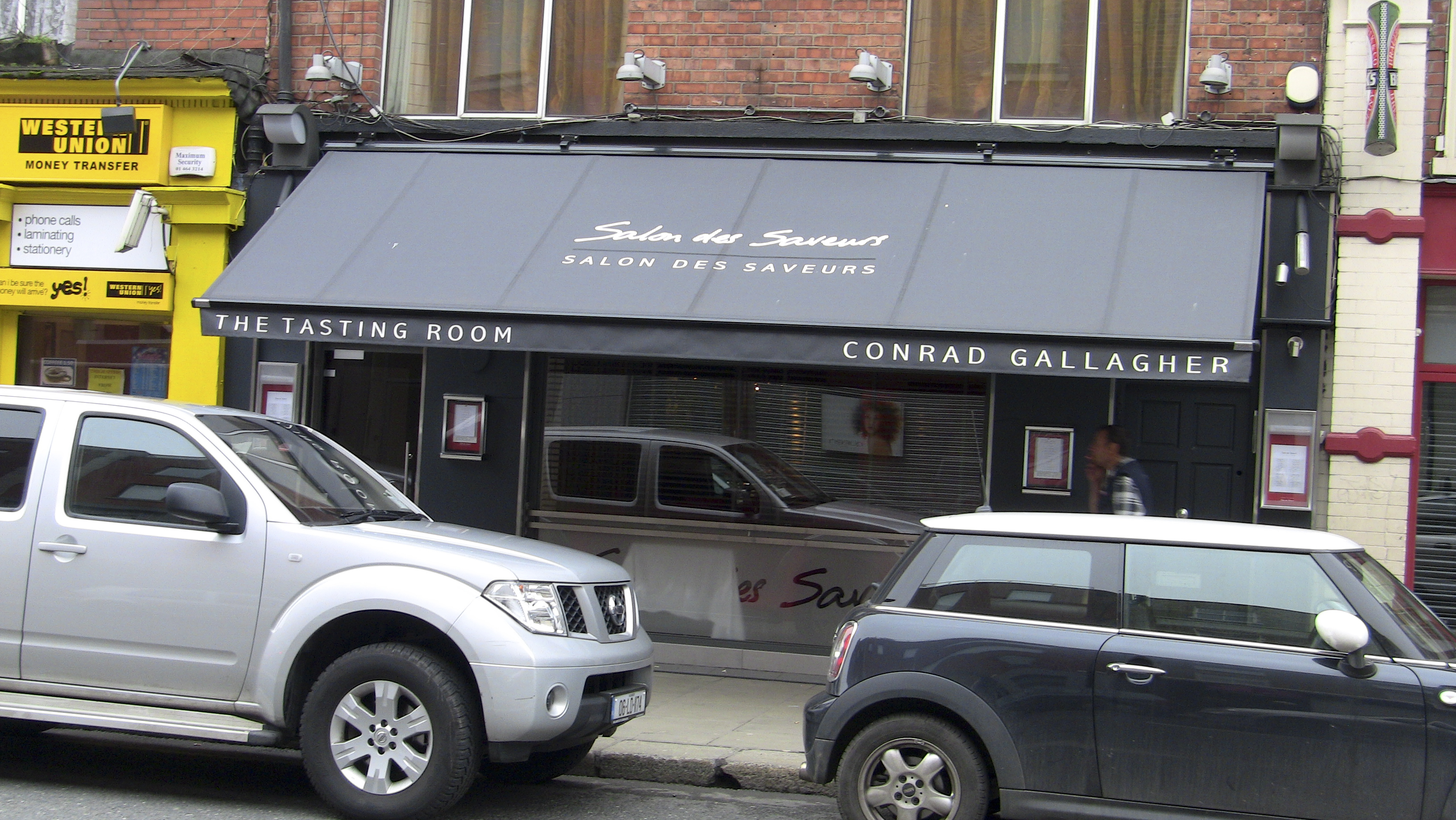 Chef Conrad Gallaghers Restaurant "Salon Des Saveurs" in 16 Aungier Street, Dublin 2, Ireland